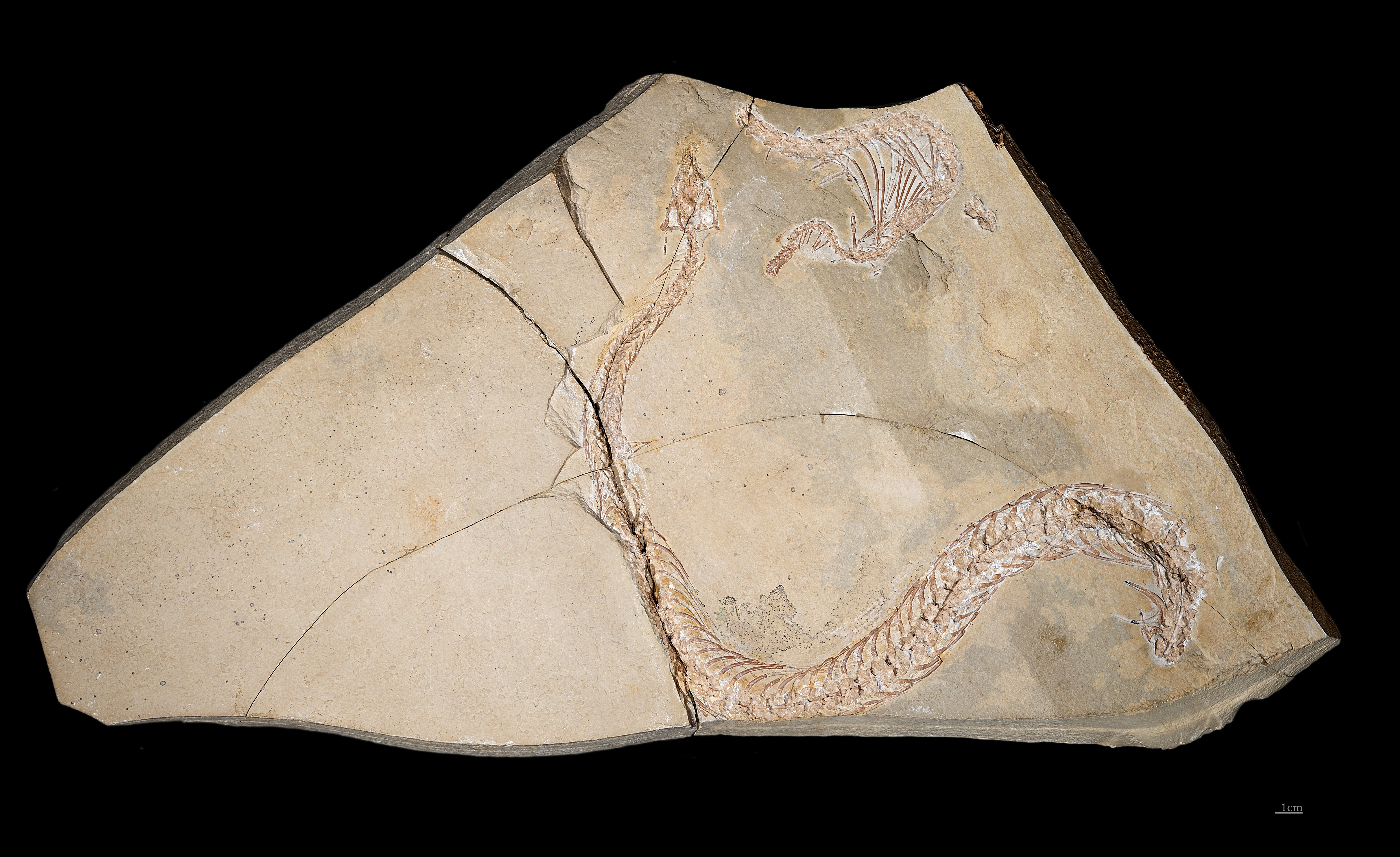 Eupodophis descouensi - Holotype. Stage : Cenomanian 99.6 ± 0.9 Ma and 93.5 ± 0.8 Ma (million years ago)